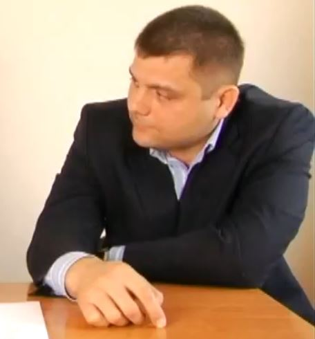 Pyotr Ofitserov